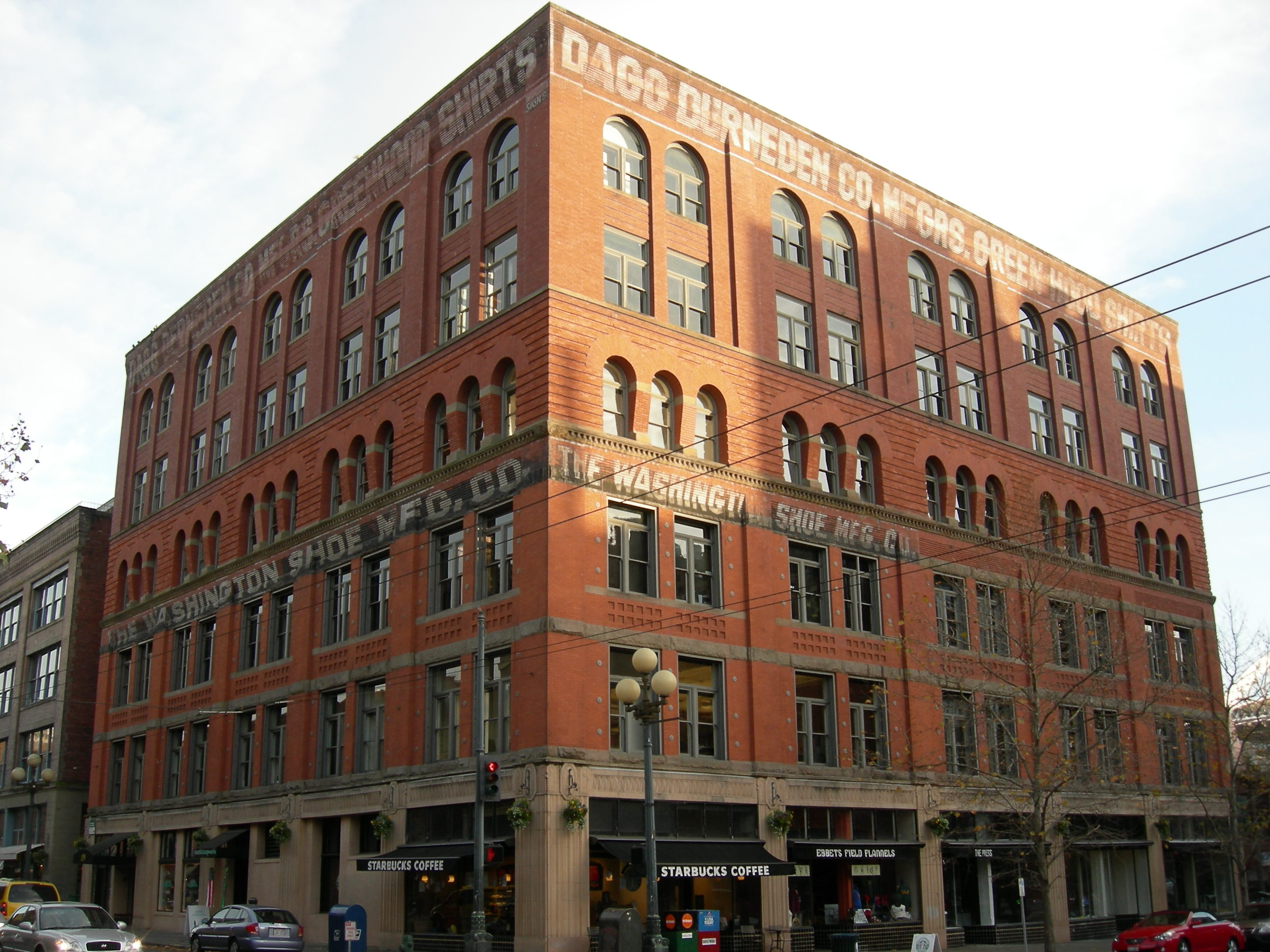 Washington Shoe Building, 400 Occidental Way South in the Pioneer Square neighborhood, Seattle, Washington, USA. Also known as J. M. Frink Building / Washington Iron Works / Washington Shoe Mfg. Company Building / Washington Shoe Company Building / "The Shoe". Visible signs from former tenants say "Dago Durneden Co. Mfgrs. Green Hood Shirts", "The Washington Shoe Mfg. Co." On the corner is a Starbucks. To its right is Ebbets Field Flannels, which manufactures and retails replicas of old professional baseball uniforms. Built 1892, remodeled many times (including two storeys added in 1912, and some art deco detailing later). Many manufacturing and warehouse uses, then for many years this was a warren of small artist studios (with retail space on the ground floor pretty much throughout). Rehabbed as offices circa 2000. For more information see Summary for 400 Occidental WAY / Parcel ID 5247800735, Seattle Department of Neighborhoods.